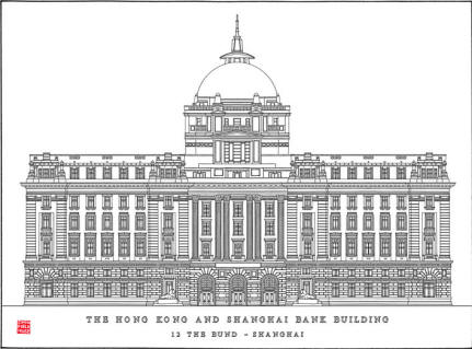 A drawing of the HSBC Building, Shanghai, China.